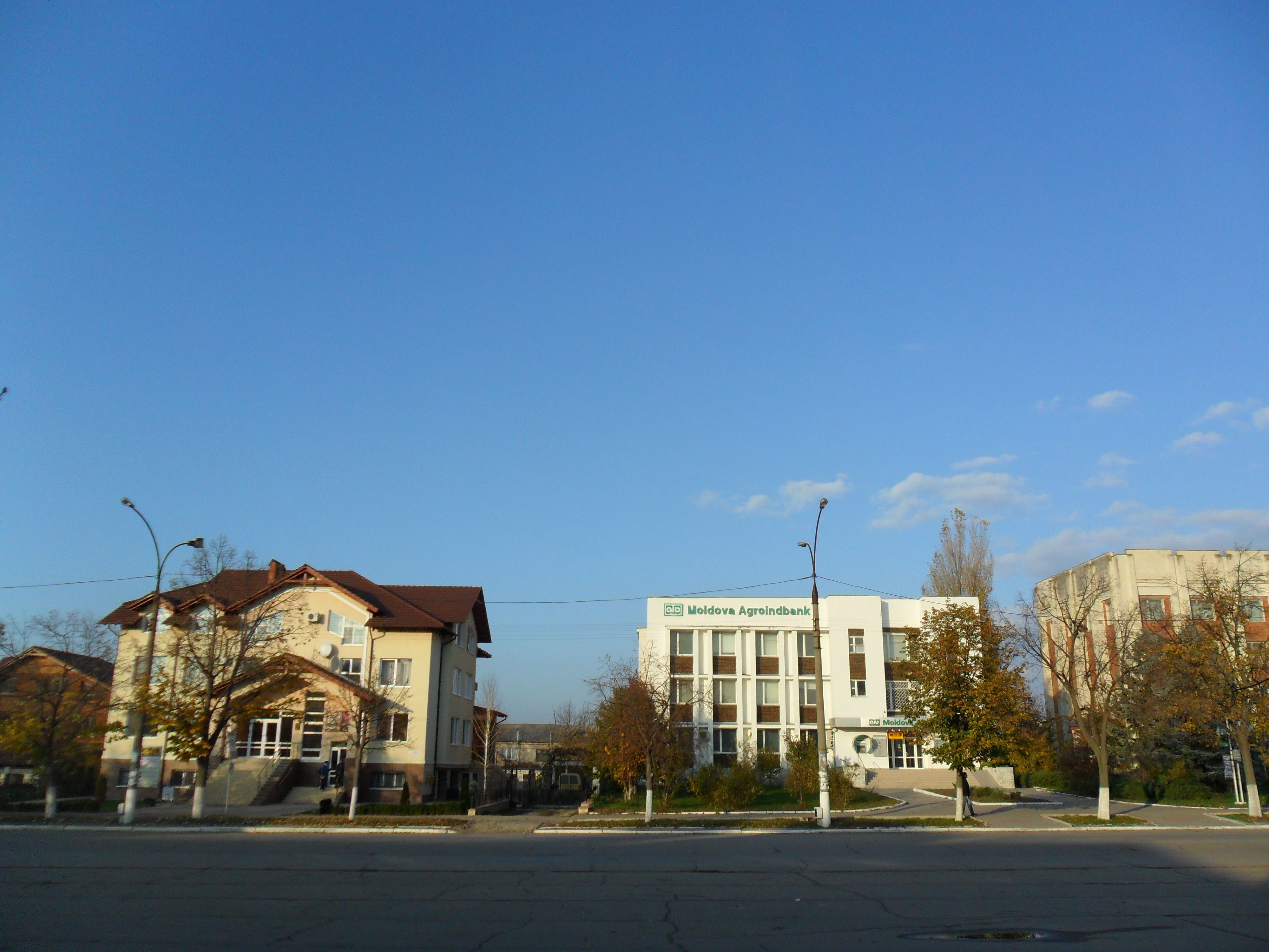 Office buildings in Anenii Noi